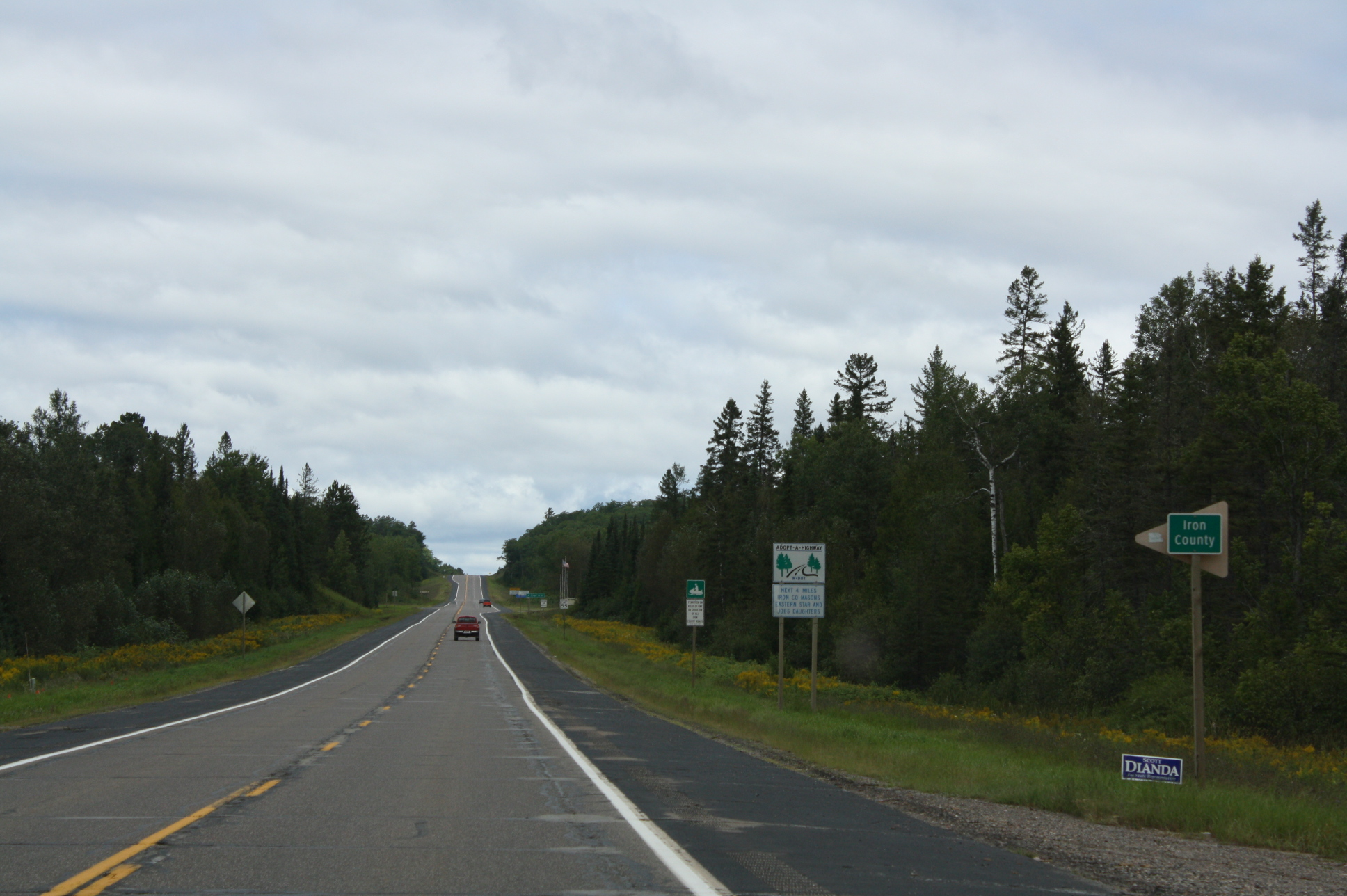 The sign for Iron County, Michigan on U.S. Route 141 U.S. Route 2.